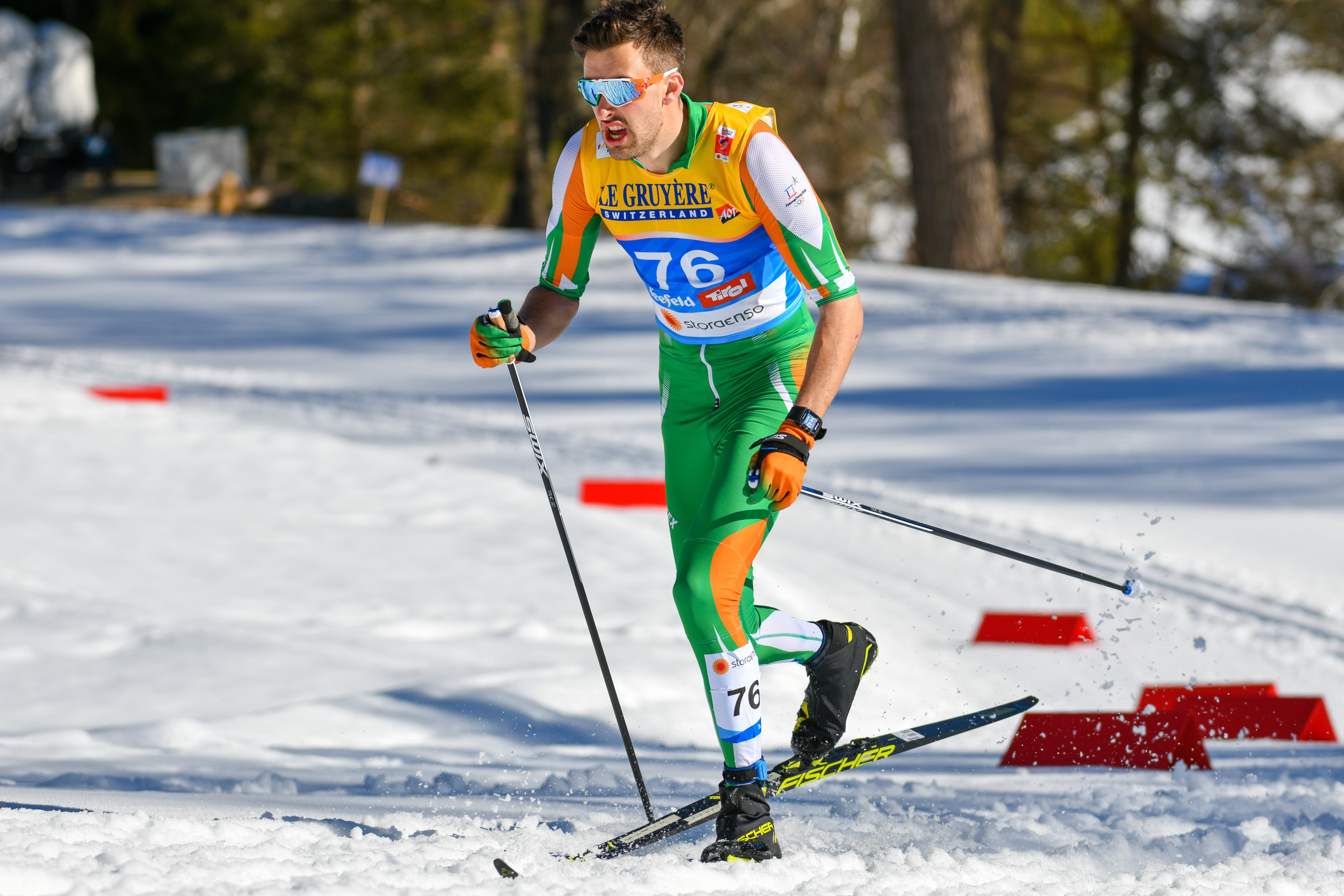 FIS Nordic Wolrd Ski Championships Seefeld 2019 - Men 15km Interval Start Classic. Picture shows Thomas Maloney Westgaard (IRL).